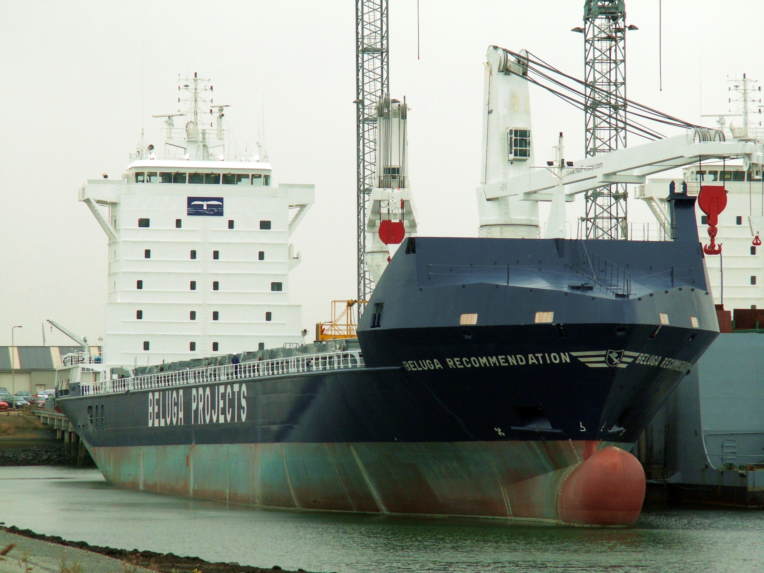 Beluga Recommendation (IMO 9277292) at the Eemshaven 30-Sep-2005.